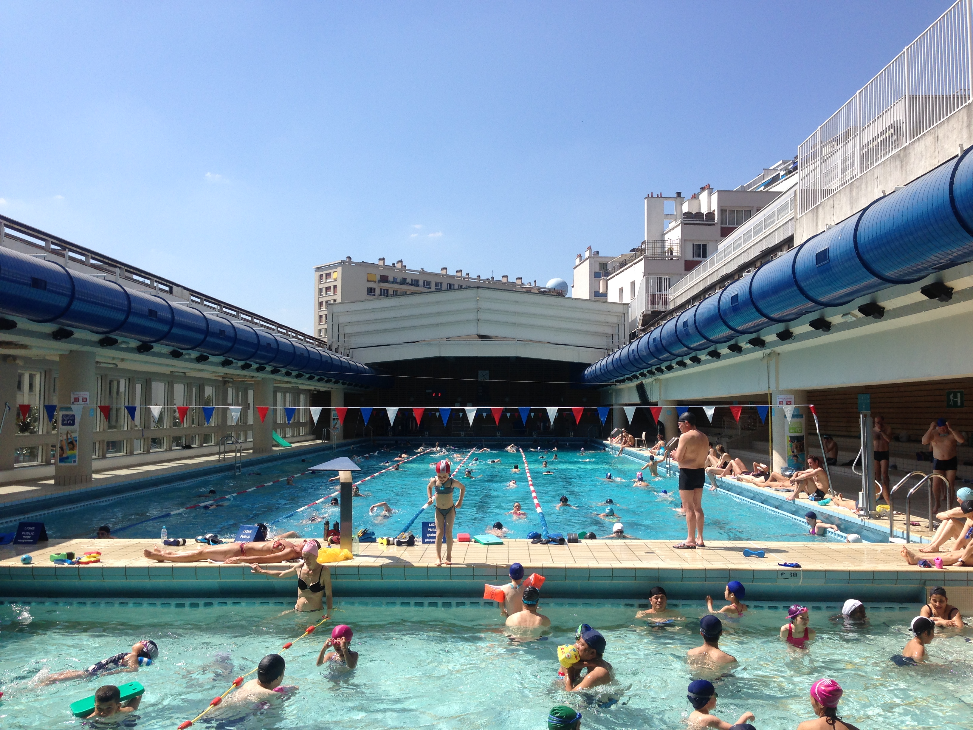 Public pool Keller in Paris, France, with open roof